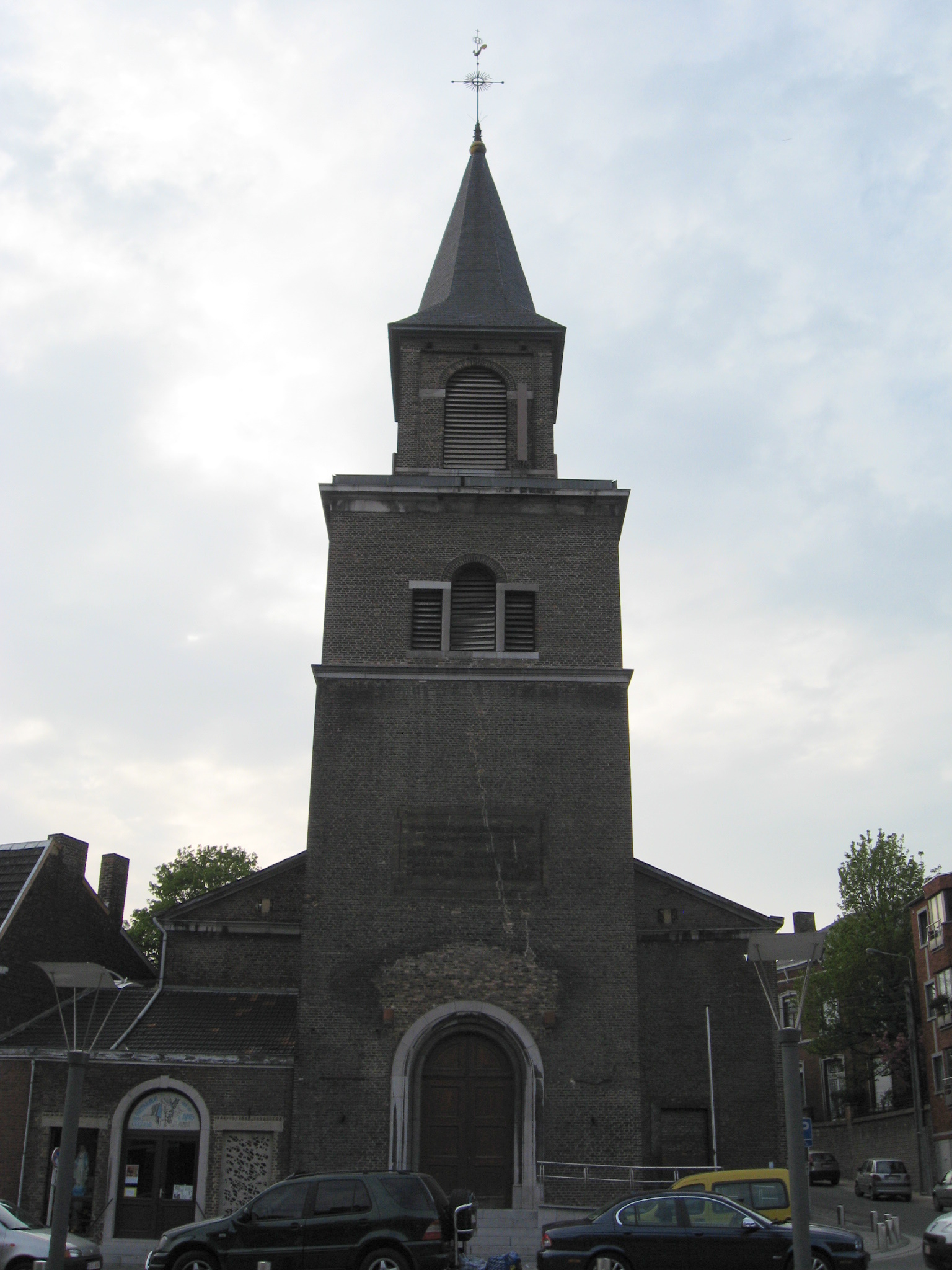 Church of Saint Martin in Ans, Liège, Belgium